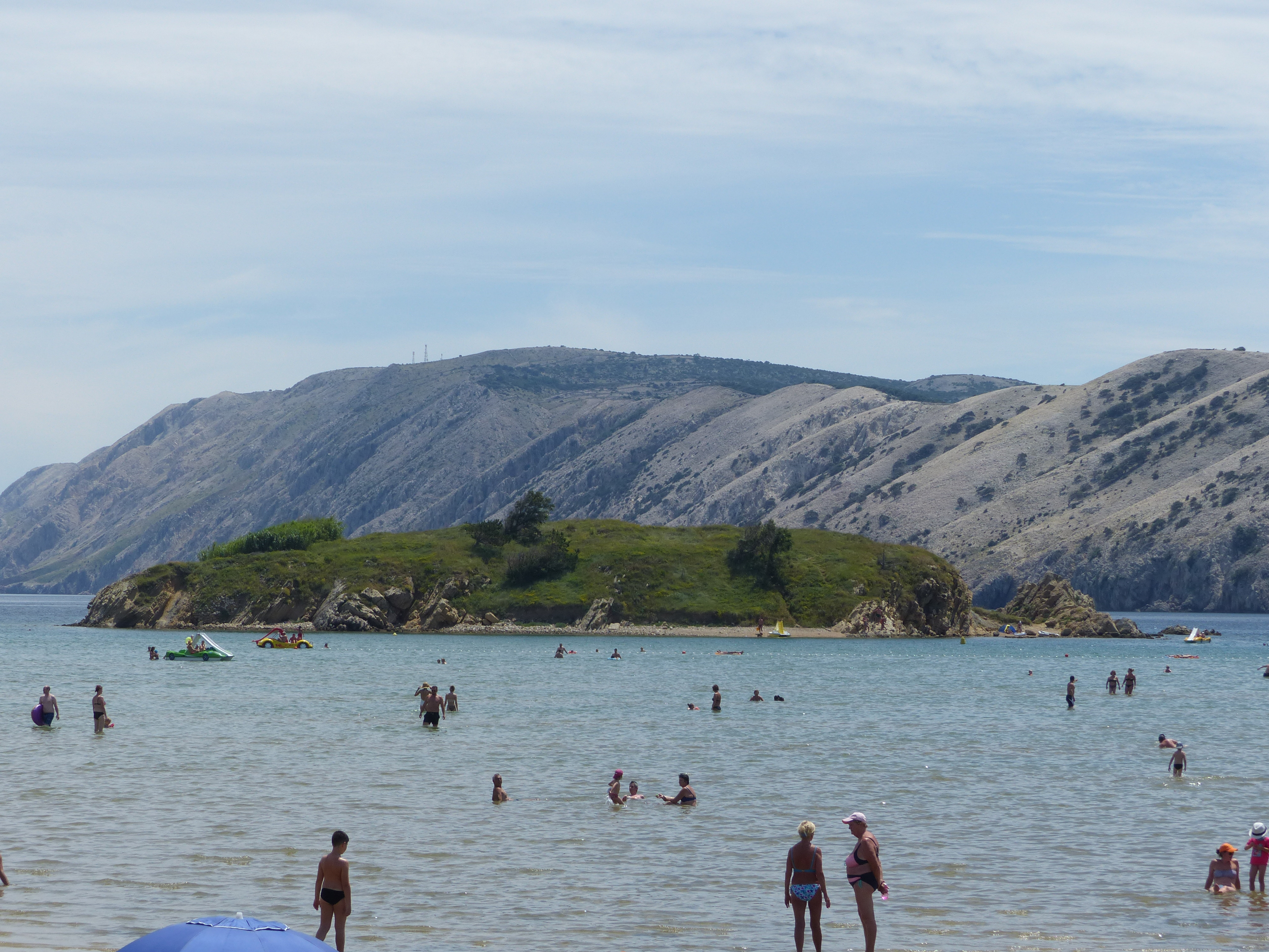 Taken on the 30th of June, 2016. Lokovac island as seen from Paradise shore. (Rajska Plaža). Lopar, Rab island. Croatia. Sandy shore, warm water (28 C). Sources